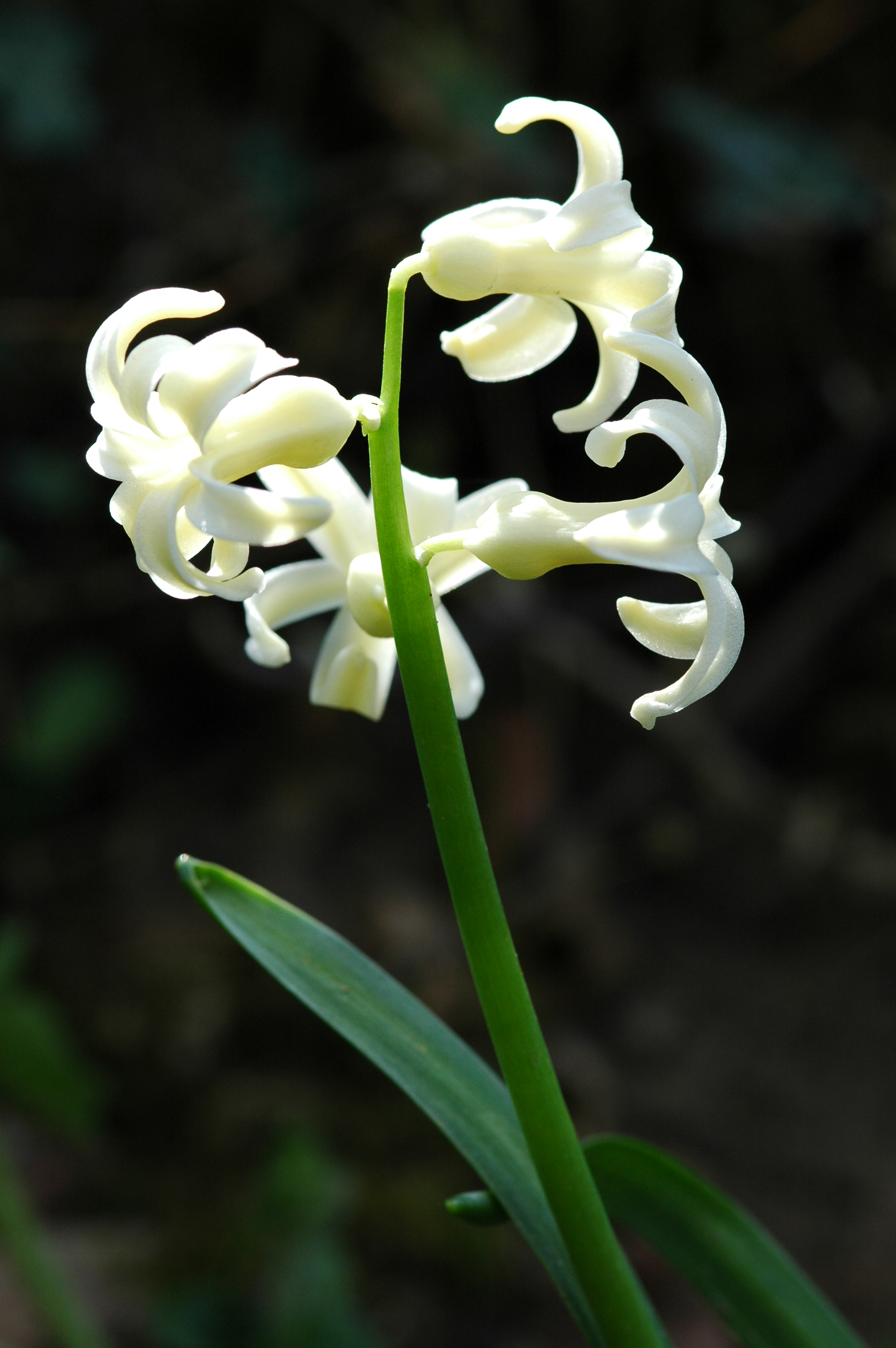 hyacinth